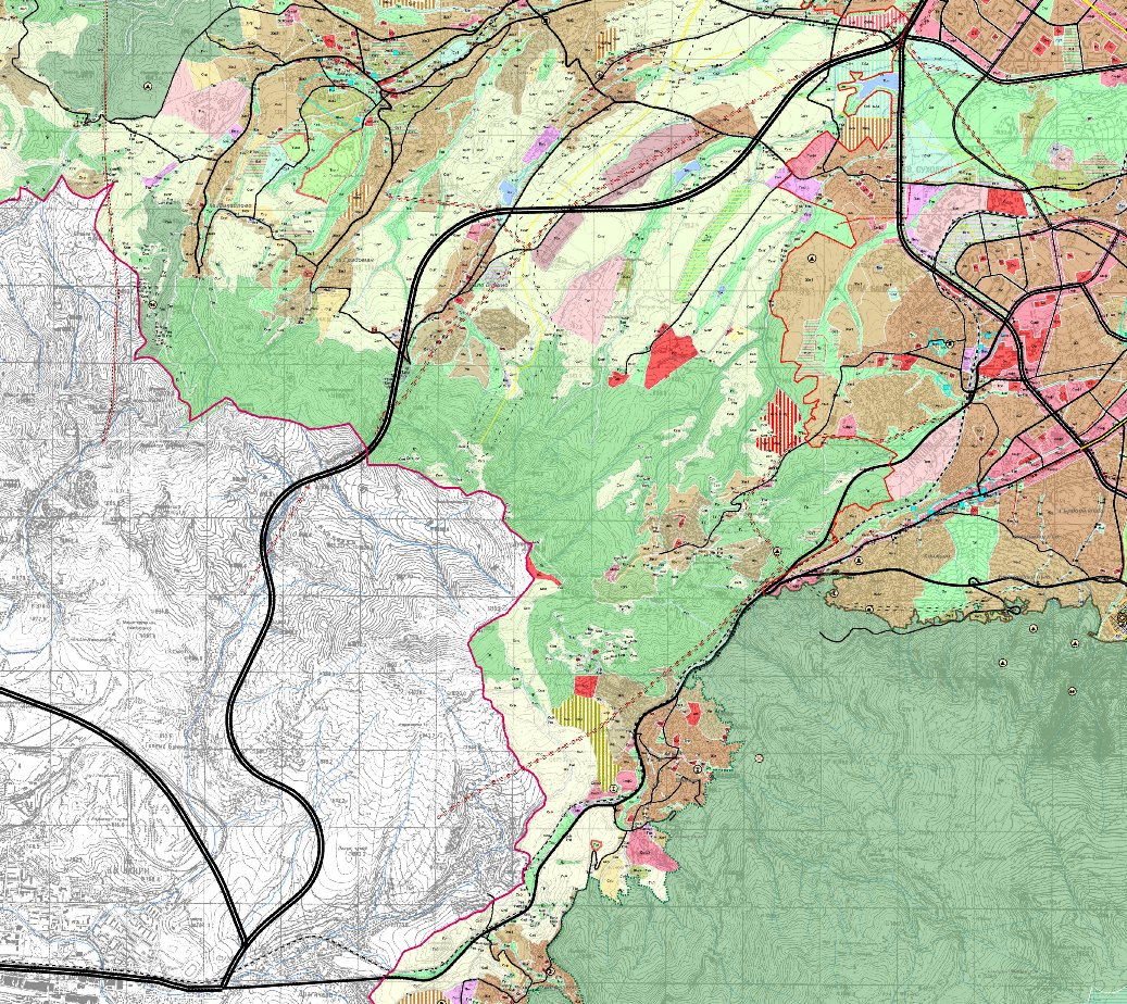 Highway Lulin - road-bed